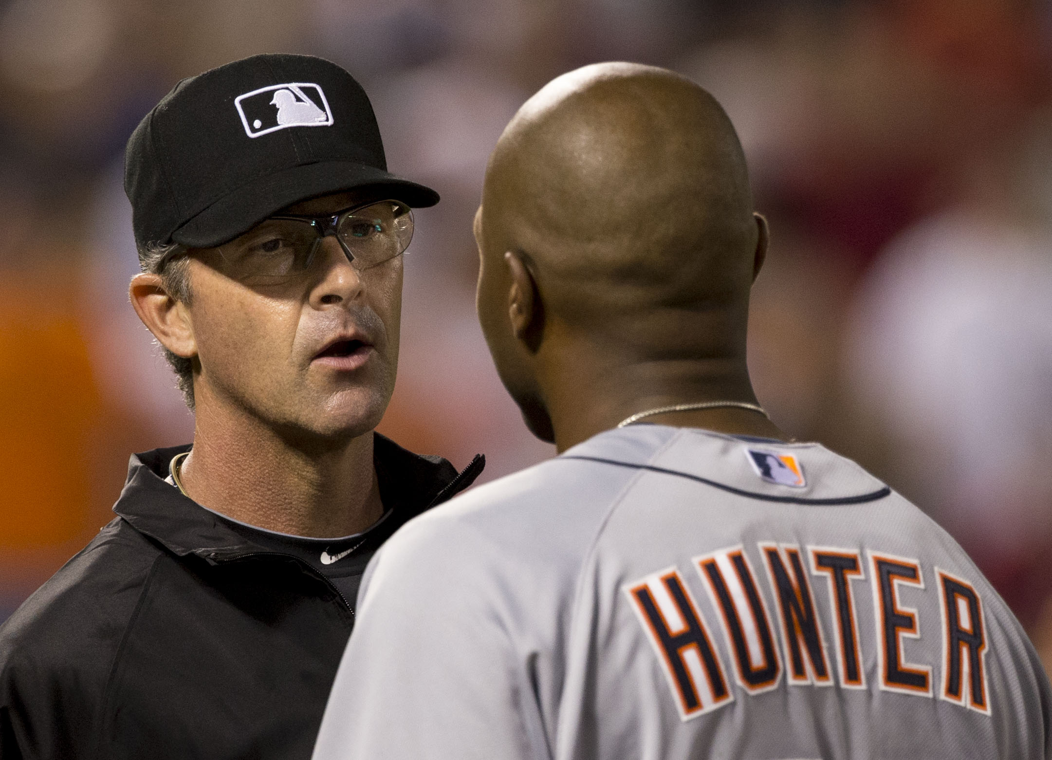 MLB umpire Paul Nauert calms Detroit Tigers outfielder Torii Hunter following an altercation in Baltimore on May 12, 2014.